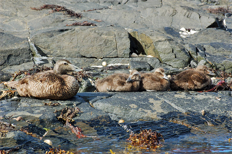 Common Eider at the norwegian island of Runde